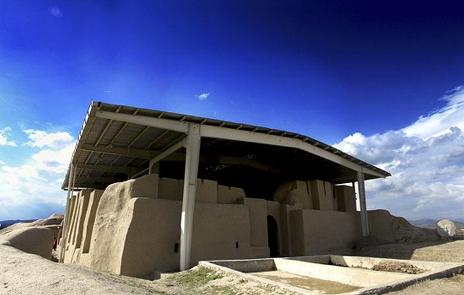 Noshijan